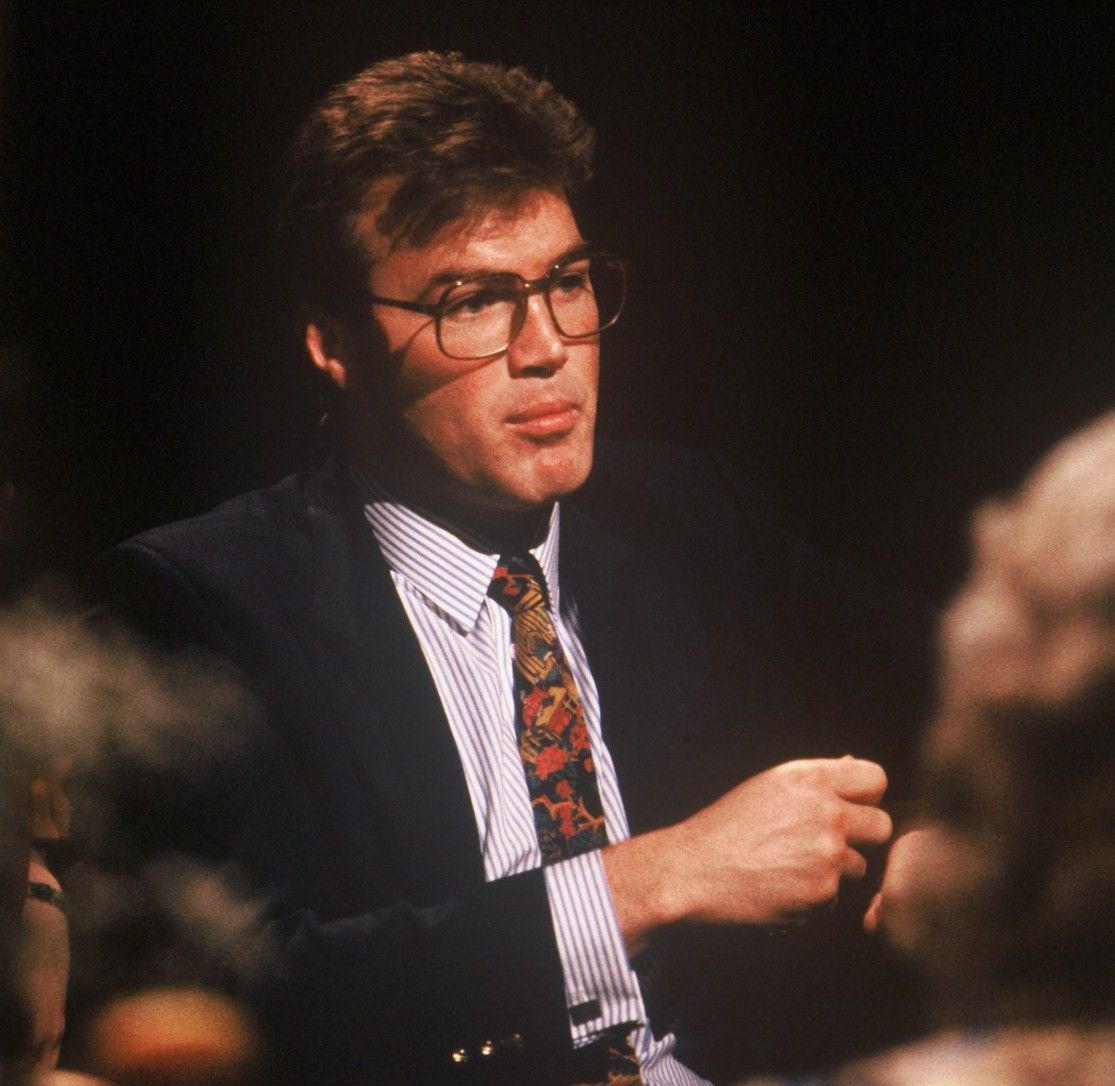 Andrew Morton appearing on After Dark on 21 October 1989. Other guests included Archduke Karl von Habsburg and Peregrine Worsthorne.